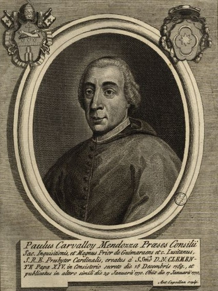 Portrait of Paulo de Carvalho e Mendonça (1702-1770)